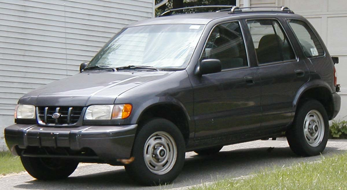 1995-2002 Kia Sportage photographed in USA.